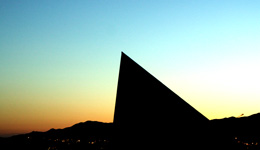 Byrd Memorial pointing to the SCP (South celestial pole)